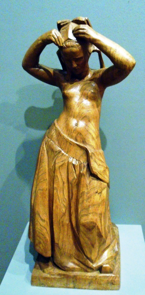 The sculpture "Apres Le Pardon" in Rennes Art Museum